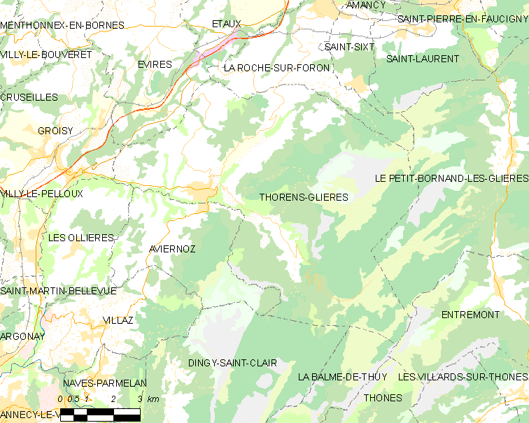 Map of French municipality Thorens-Glières